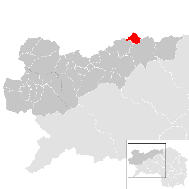 District Leoben